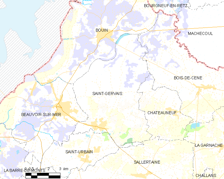 Map of French municipality Saint-Gervais